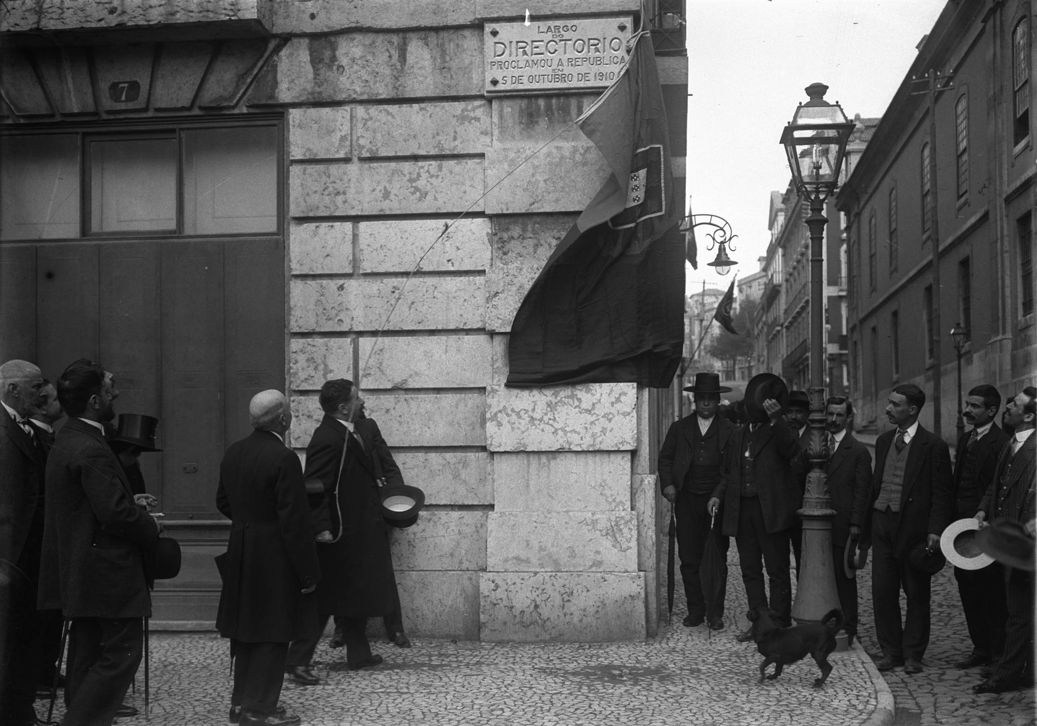 Largo de São Carlos (St. Charles Square) is renamed Largo do Directório" (Directory Square), after the Republican Directory that overthrew the Monarchy in Portugal.